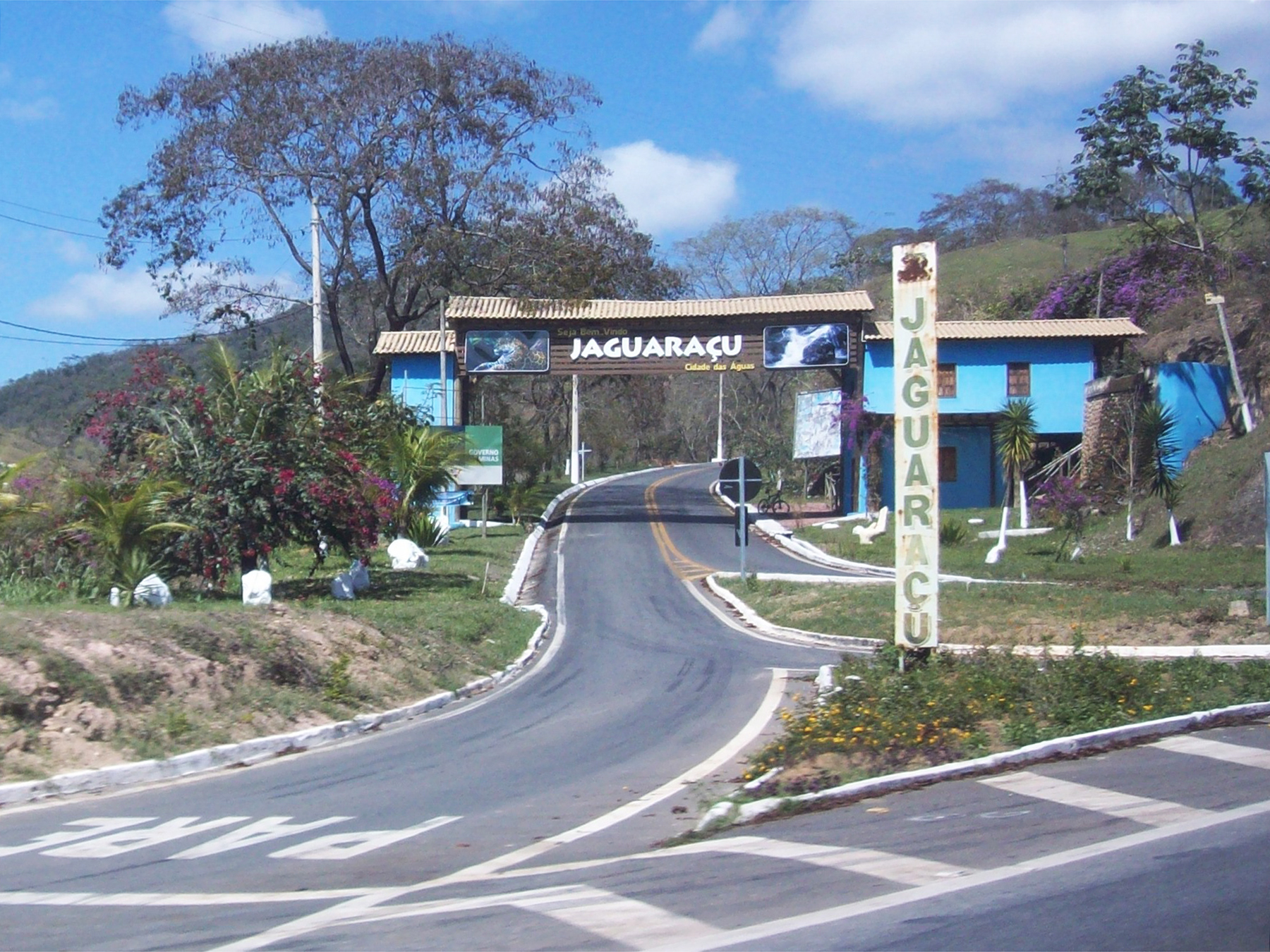 Beginning of the MG-320, in the entrance of Jaguaraçu, Minas Gerais, Brazil.